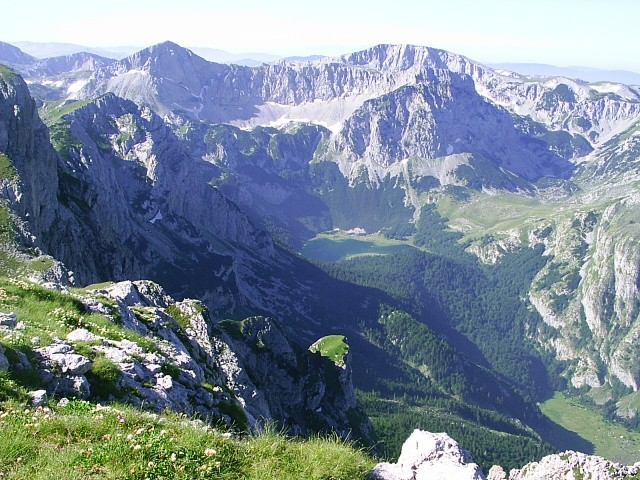 National park Sutjeska, Bosnia and Herzegovina TF2-A0A3